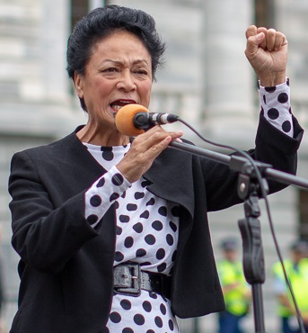 Donna Awatere Huata speaking at the School Strike for Climate in Wellington.